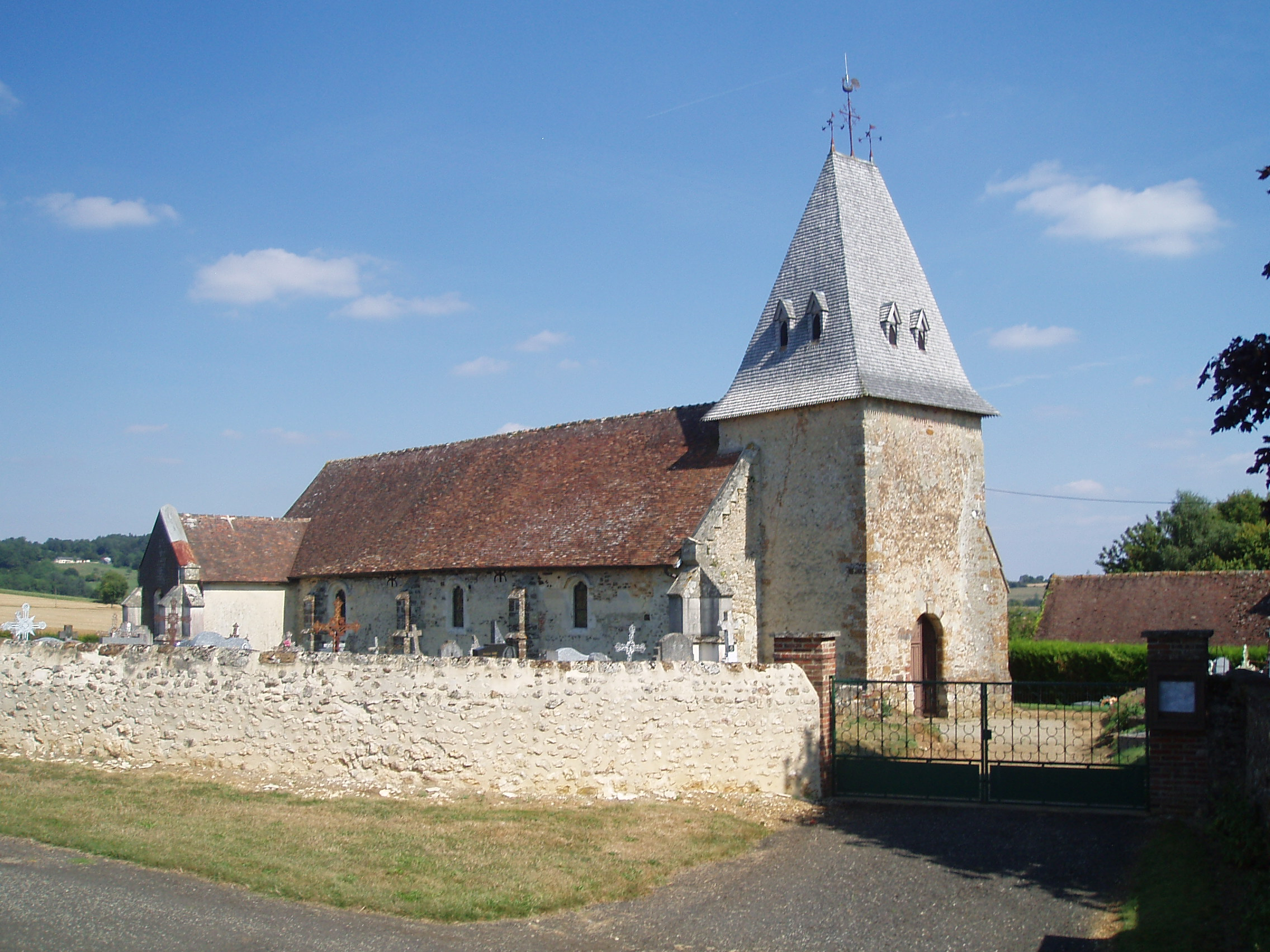 churche Mahéru (France).